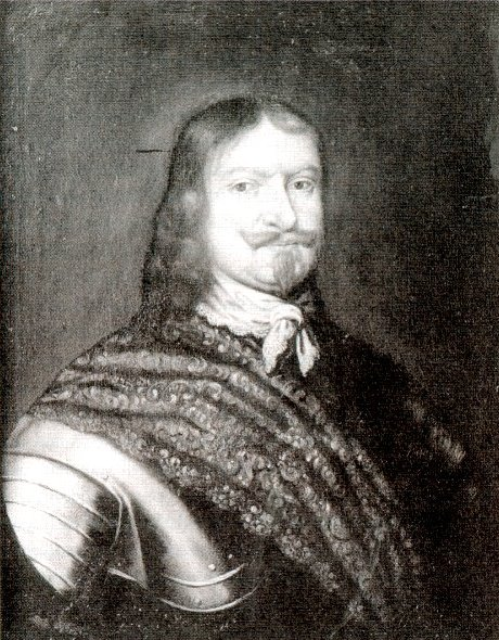 Swedish Field Marshal Lennart Torstenson